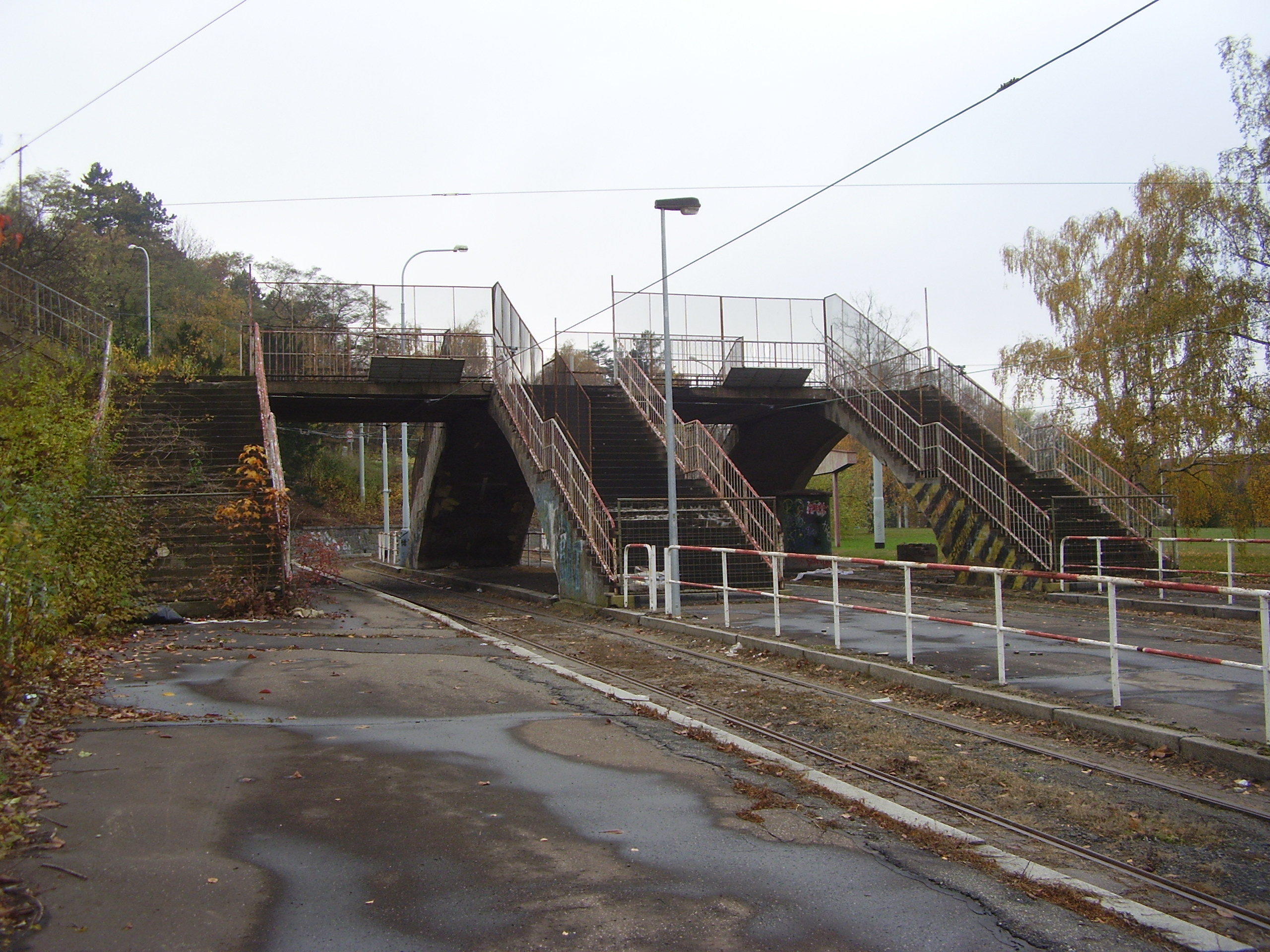 Footbridge, Tram turning place Dlabačov, Prague